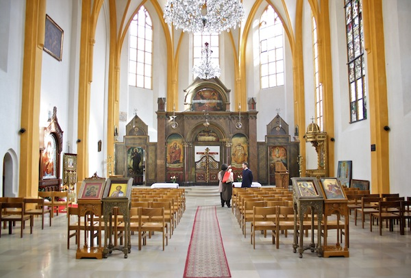 Church St. Salvator in Munich. Interior view inside with the Ikonostasis designed by Leo von Klenze